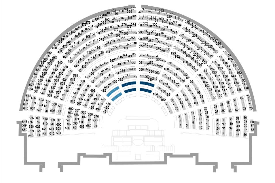 Seats numbering in French Parliament (Palais Bourbon) in Paris